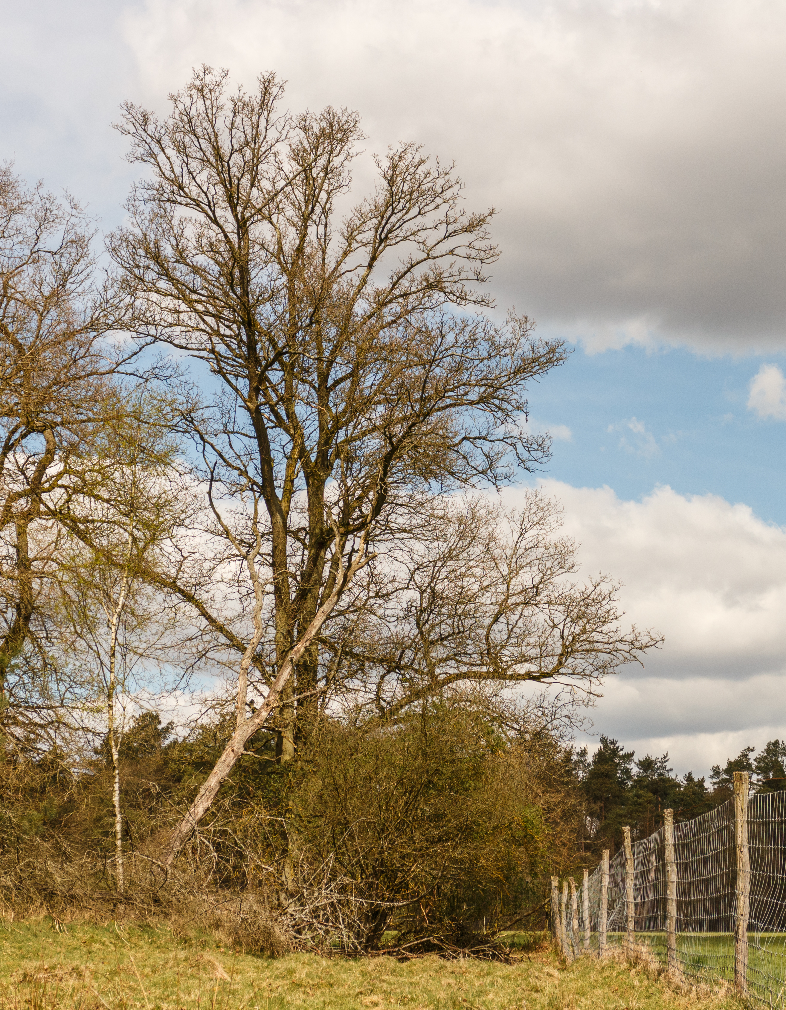 Wild Turning grid. Location, Kroondomein (Netherlands).